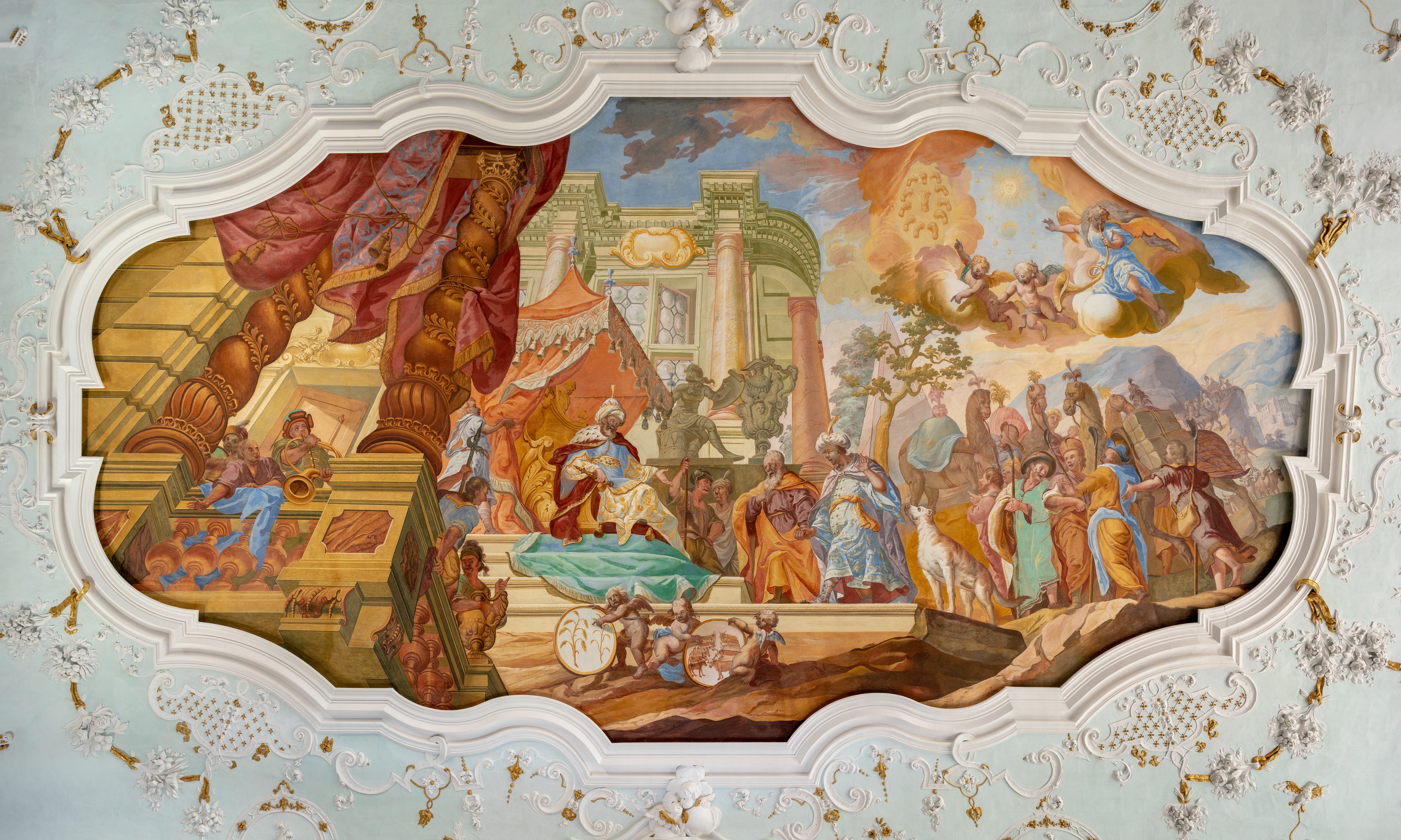 Bronnbach Abbey near Wertheim, Baden-Württemberg, Germany: The central ceiling fresco of the so-called Josephsaal shows Joseph leading his father Jakob to the Pharaoh. Painted 1724/25 by Johann Adam Remele († 1740). NB: The asymmetry, especially at the right border of the stucco cartouche is not a problem of the photograph: the stuccos are really not perfectly symmetrical.